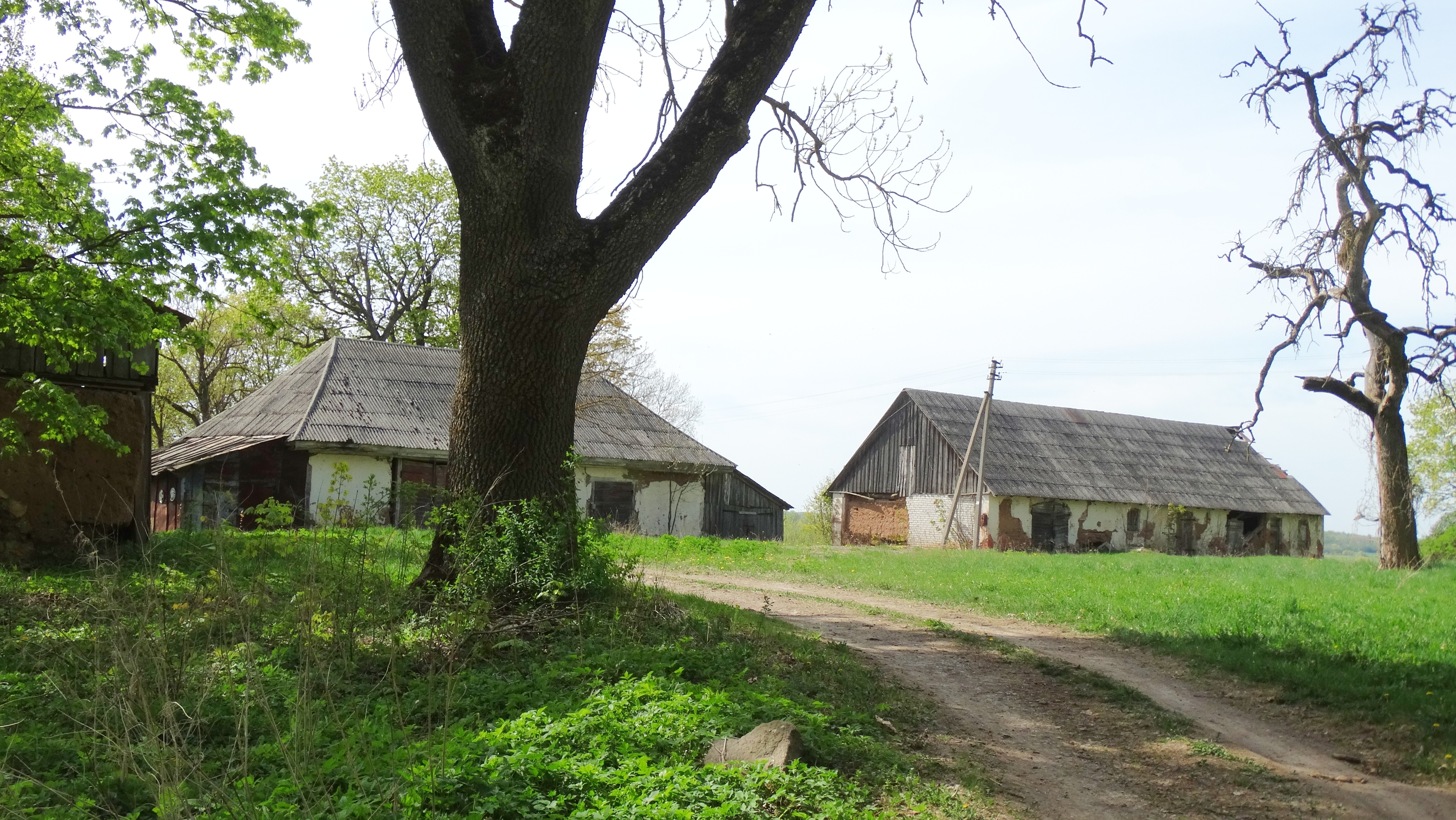 Former manor teritory, Dovydiškis, Pakruojis District, Lithuania